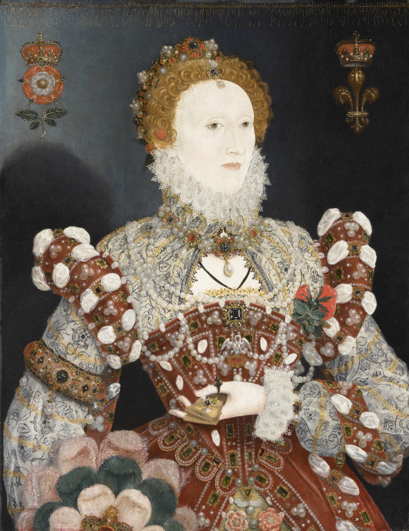 The "Pelican Portrait" of Queen Elizabeth